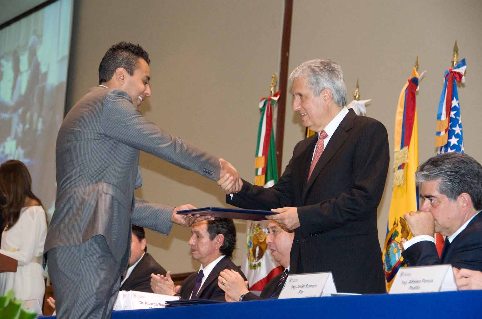 Graduation at ITESM CCM